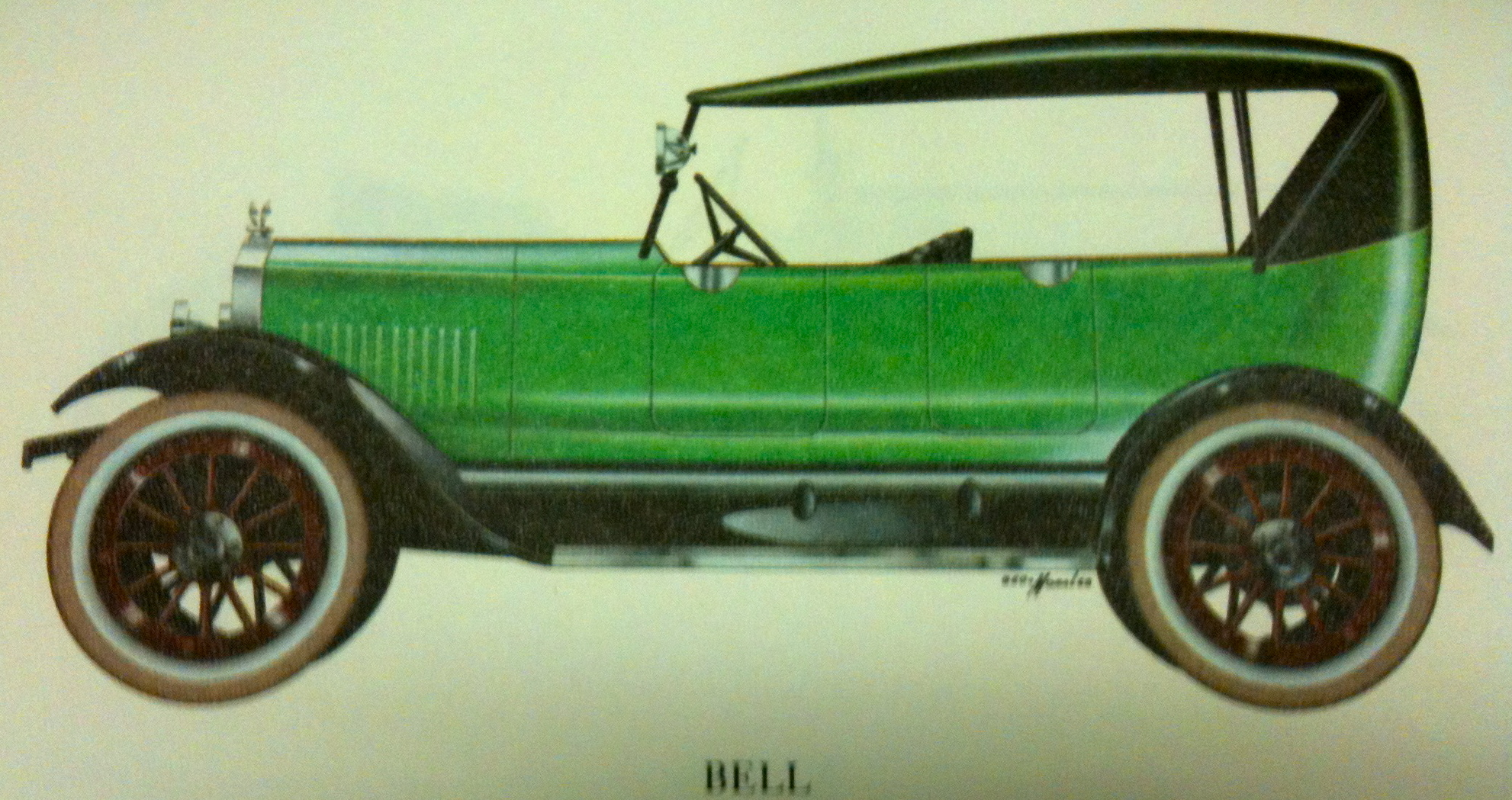 1920 Bell Touring Car drawing. Other information This drawing is from an old cut up calendar from around 1920. The printing company and year are not visible.